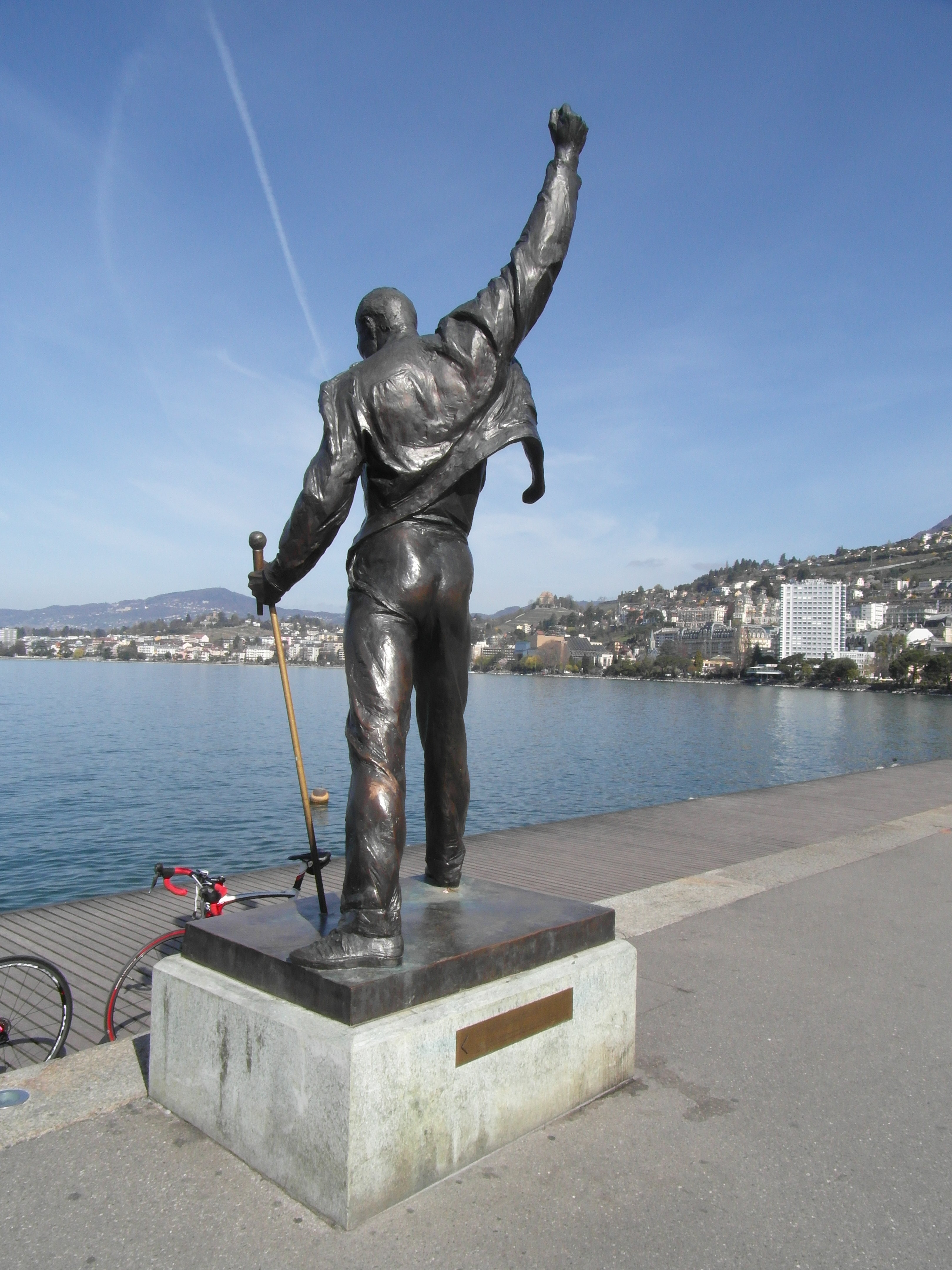 A statue of Freddy Mercury facing the lake.